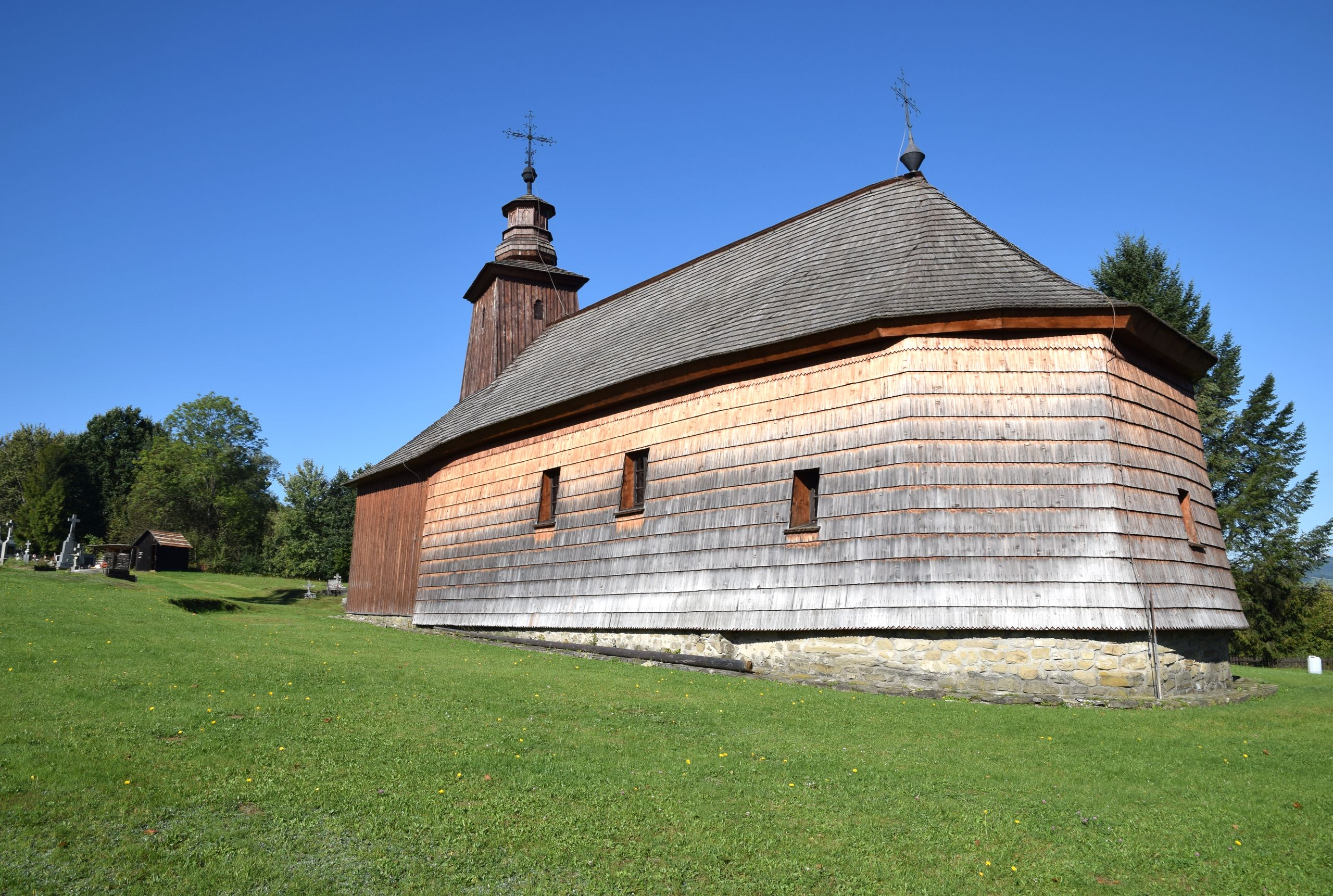 Krivé, temple of St Luke